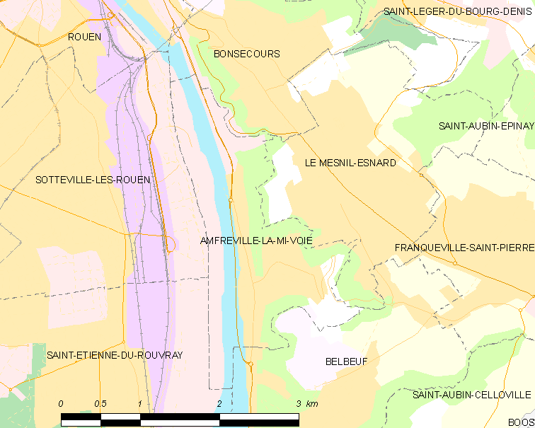 Map of French municipality Amfreville-la-Mi-Voie